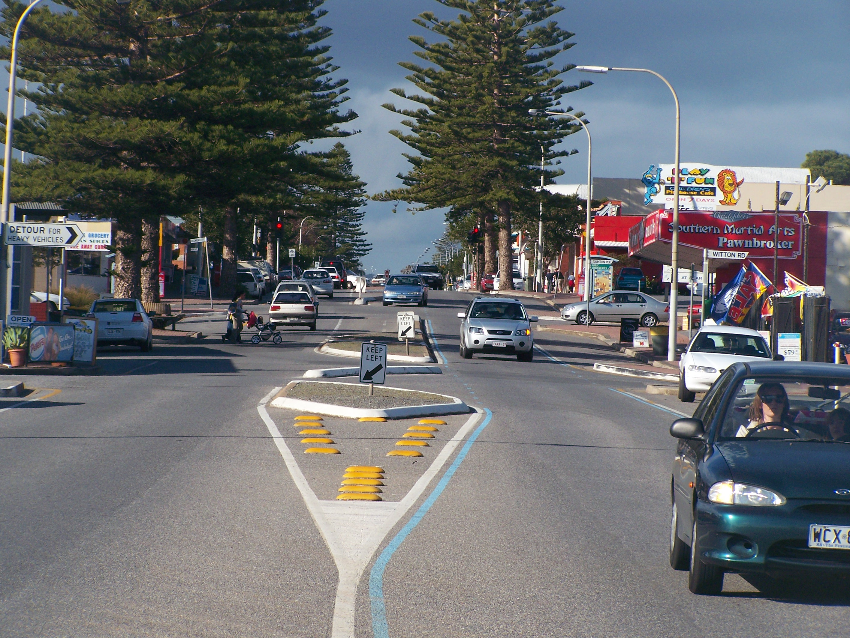 This is a recent photo of the Beach Rd Commercial strip from the end of Beach Rd near the beach looking East